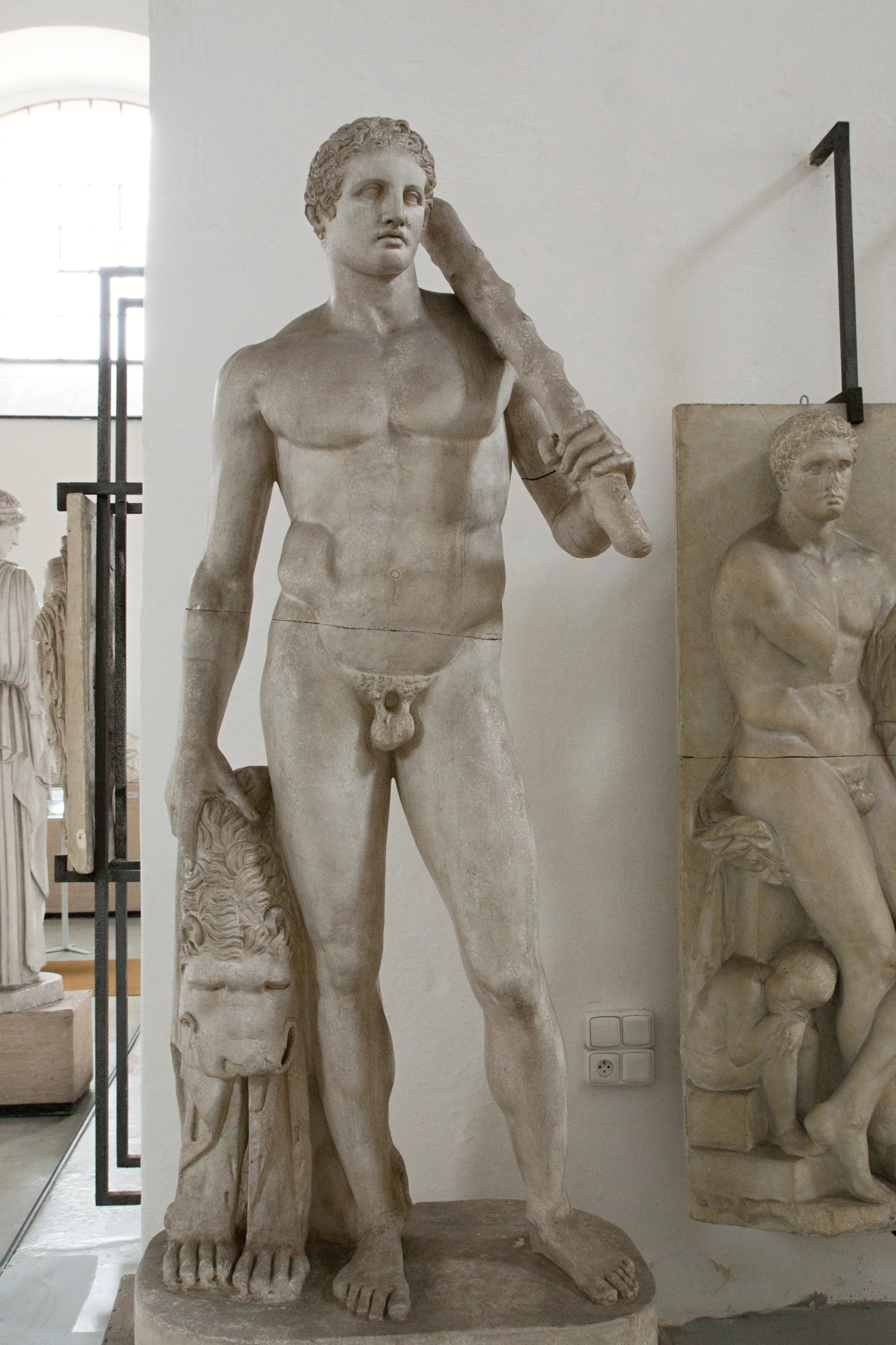 Scopas, Heracles Lansdowne, around 350 BC. Plaster cast. Gallery of Classical Art in Hostinné.